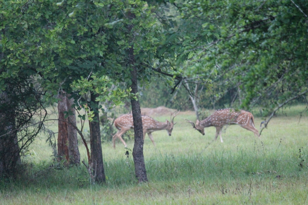 Deers fighting in the wilds of Wayanad